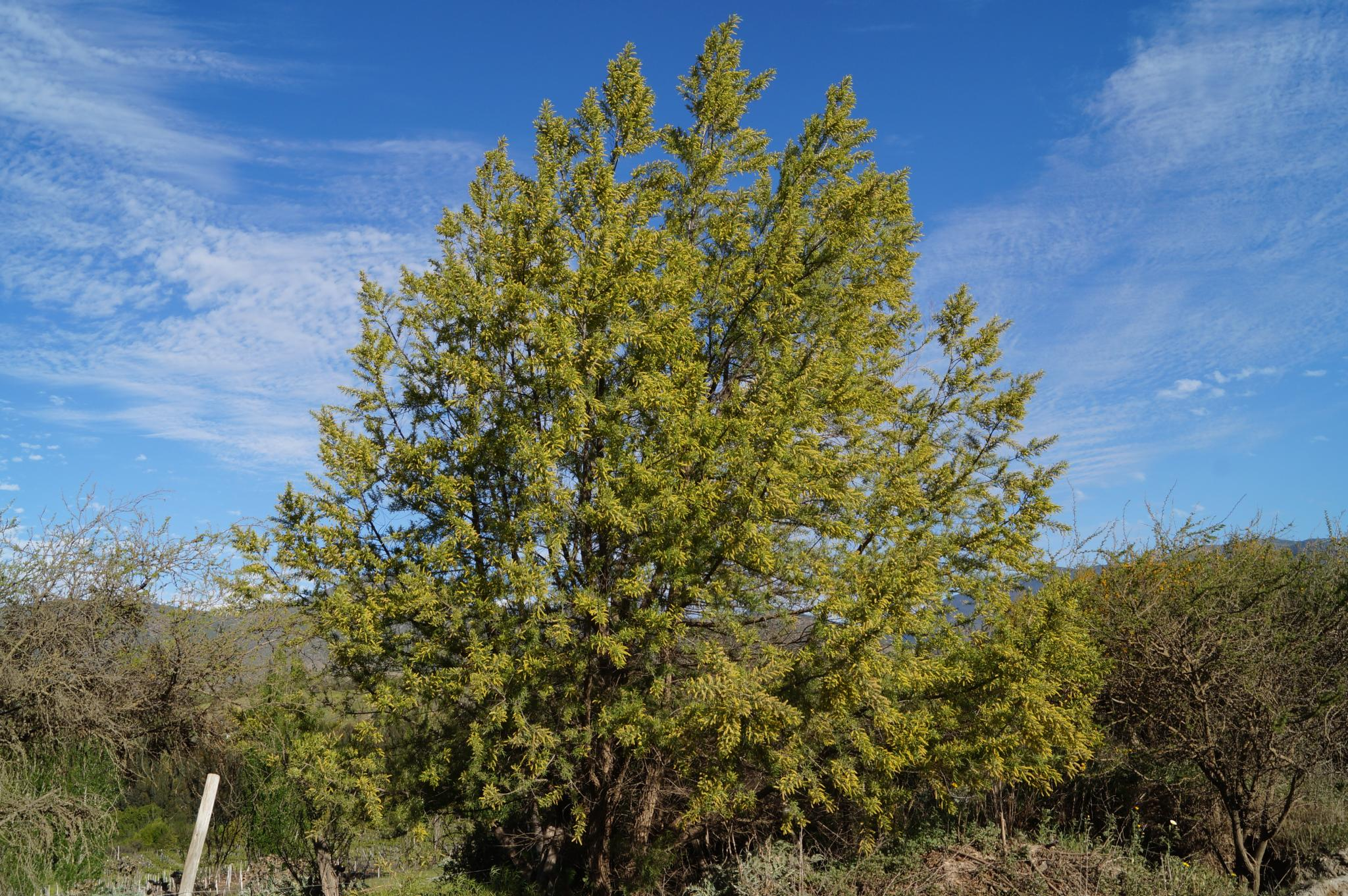 Salix humboldtiana